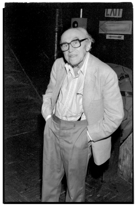 Owner Max Gordon, founder and proprietor of the iconic jazz club, the Village Vanguard in New York City. July 1983 Photo by Brian McMillen /